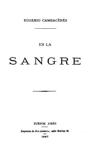 Title page from "En la sangre", by Eugenio Cambaceres.